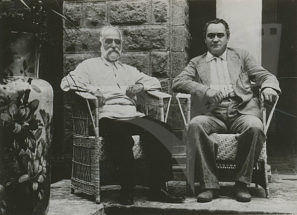 Bulgarian Communist politician Georgi Dimitrov and Georgian Communist leader Philipe Makharadze in Borjomi, Georgian SSR. 1934